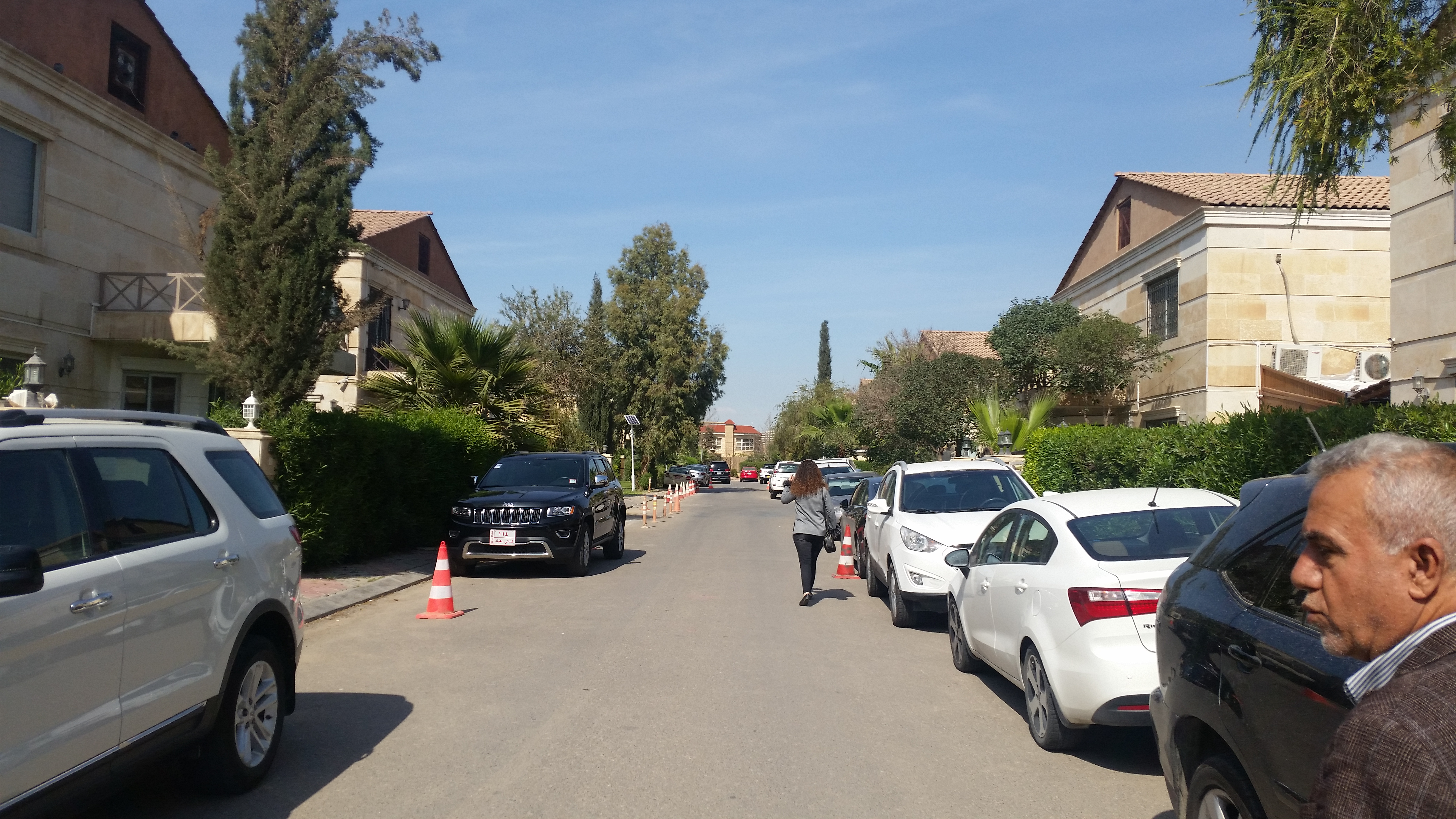 English village in Arbil